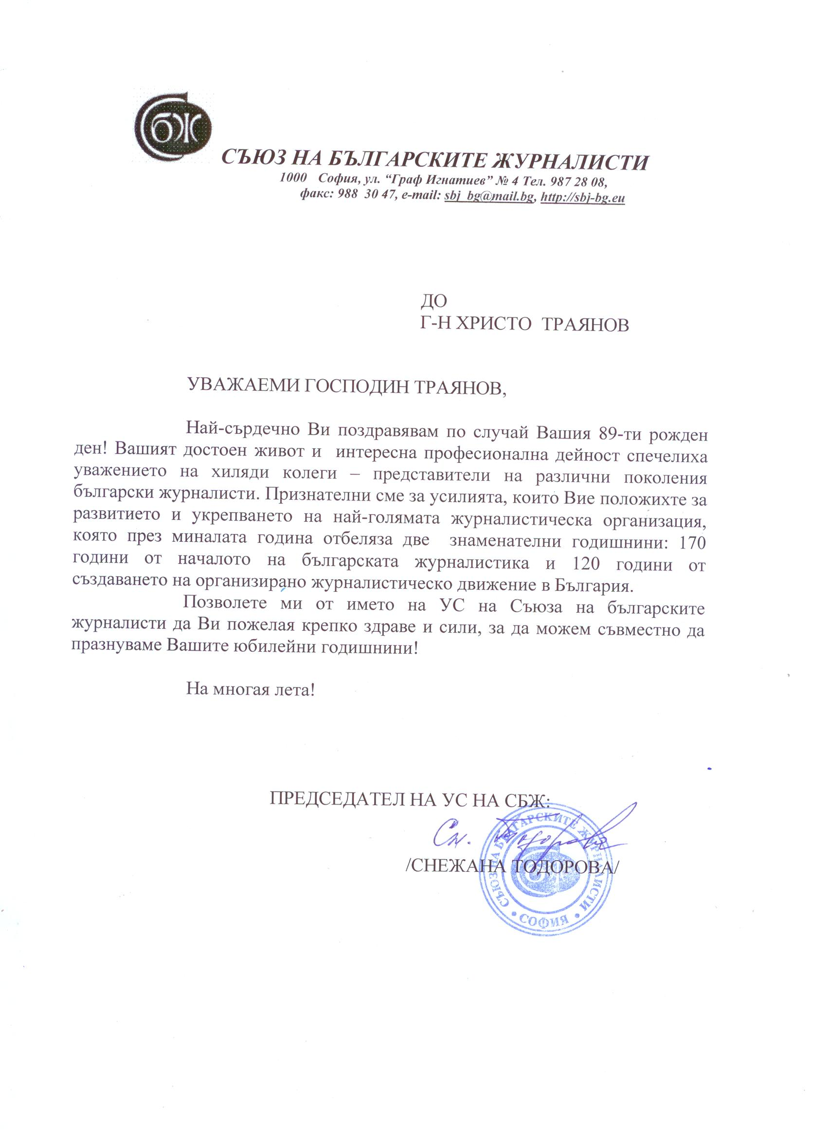 Поздравителен адрес СБЖ 2015 г.